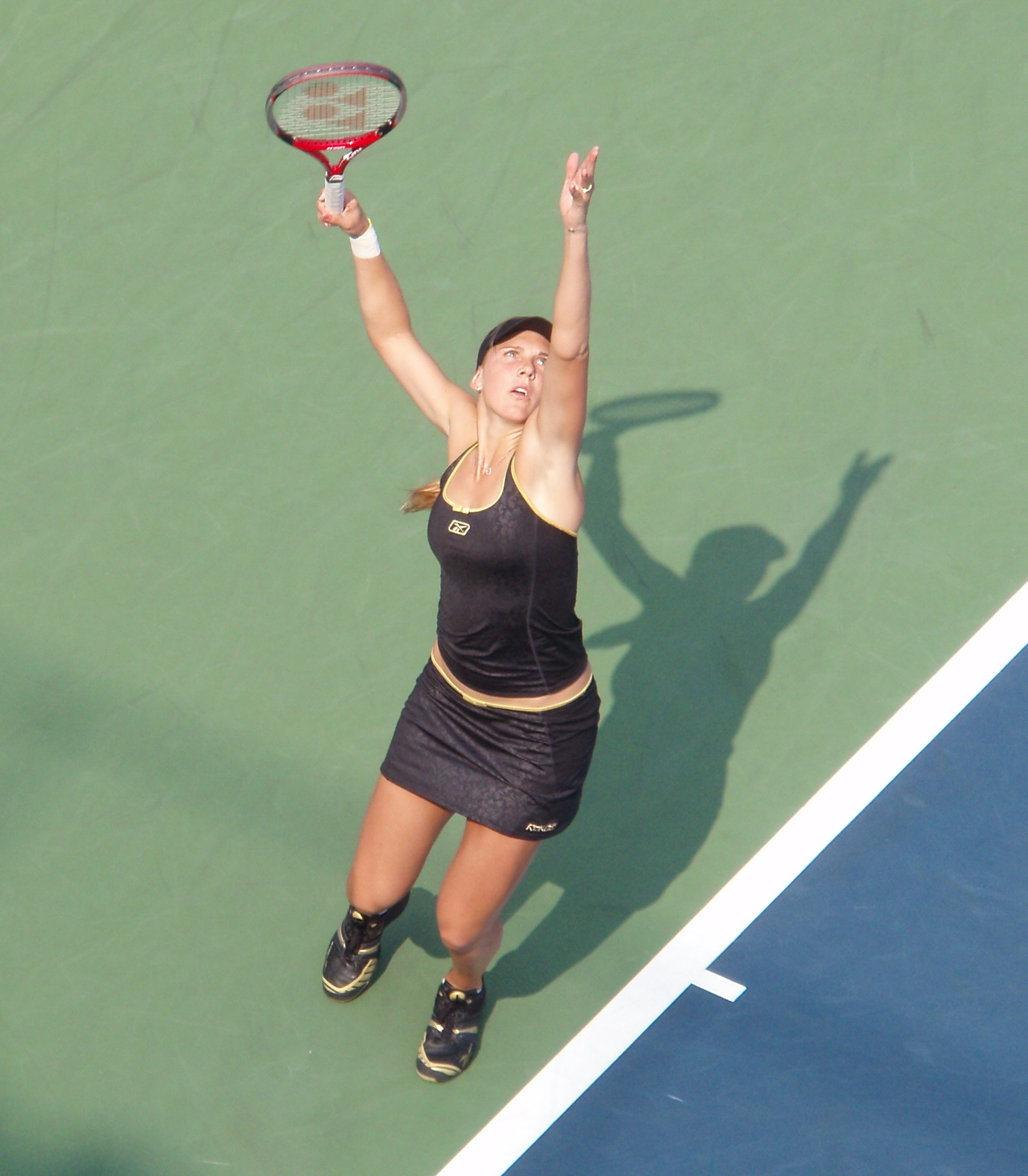 Nicole Vaidisova 2007 US Open